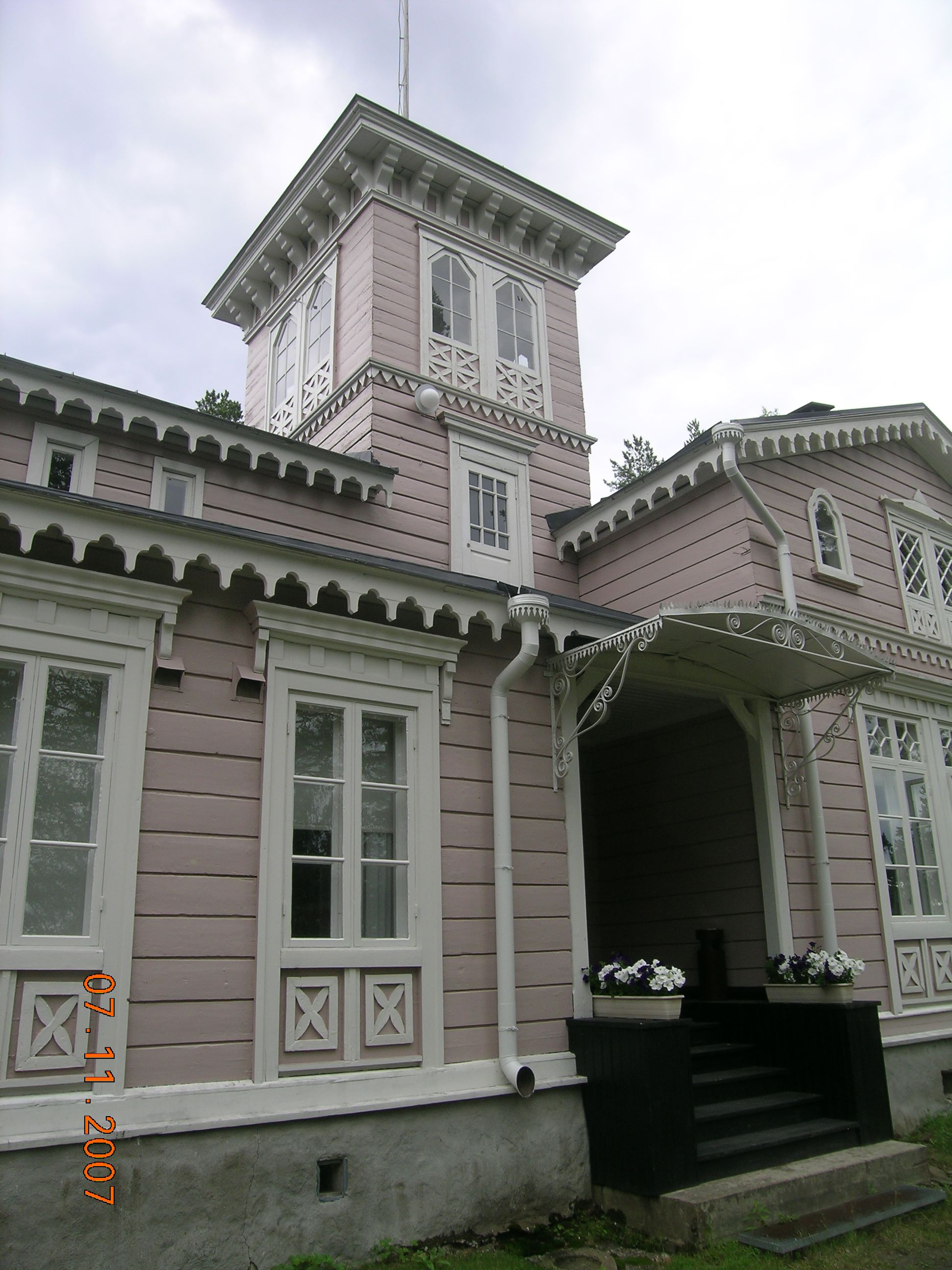 Punkaharju State's Hotel in Finland